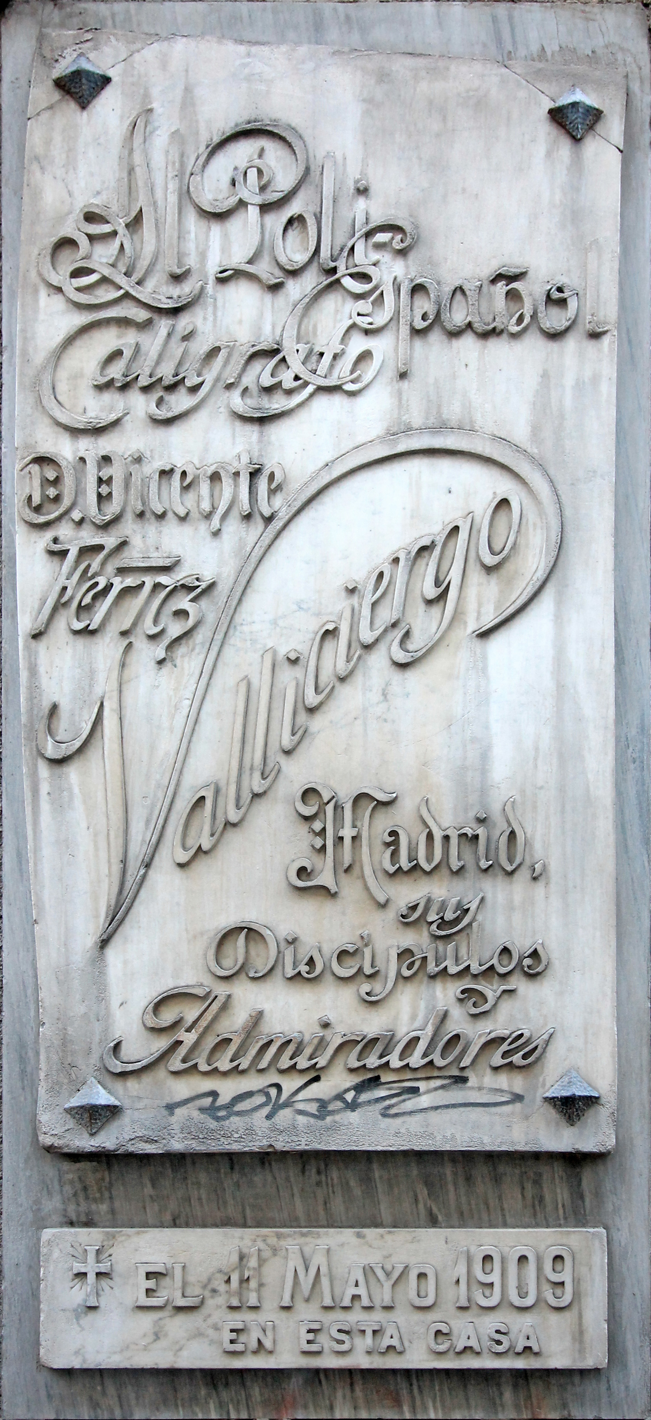 Commemorative plaque to Vicente Fernández y Valliciergo at 7th Calle de la Ballesta (street) in Madrid (Spain), where he lived and died.